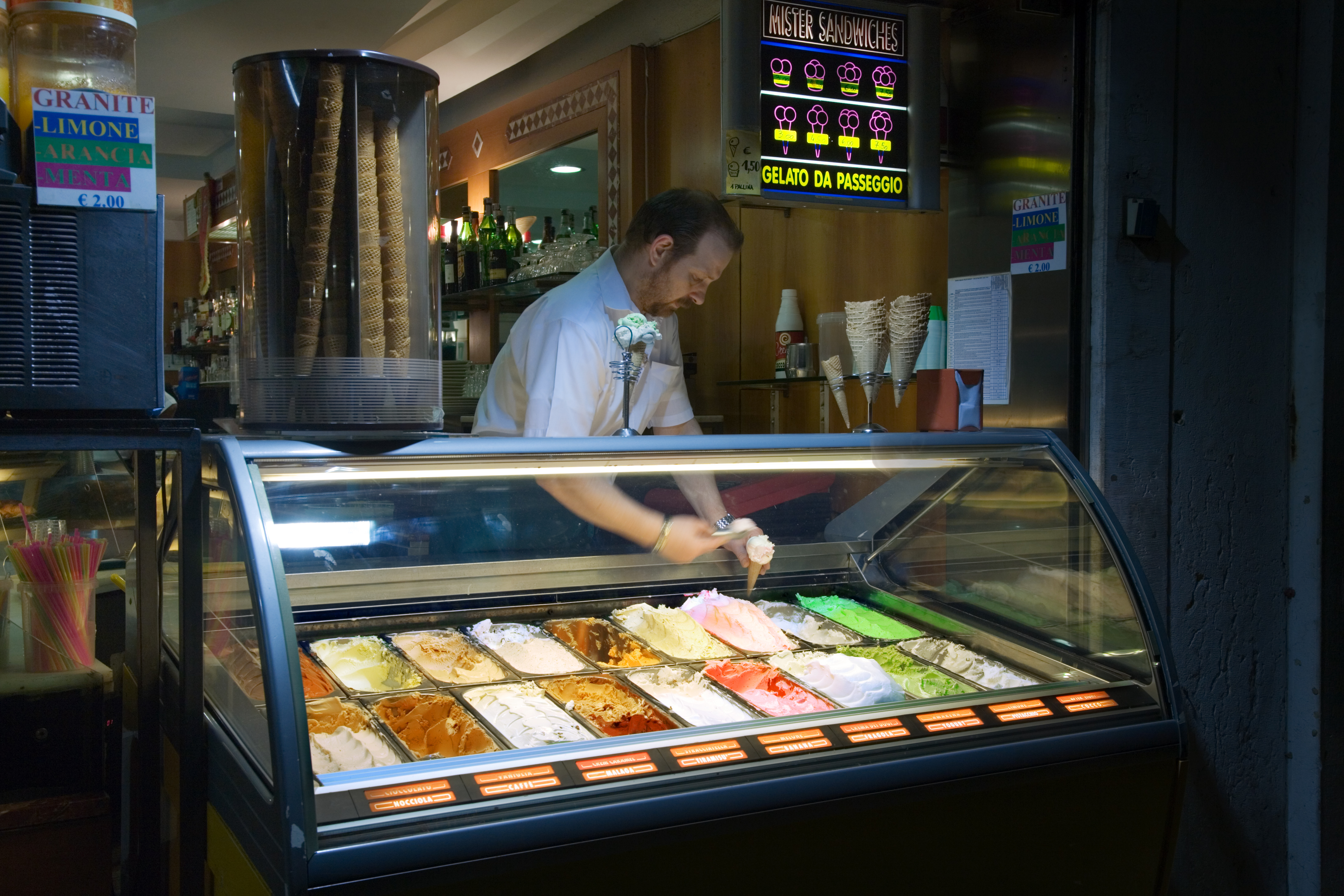 Ice cream parlor. Venice, Italy 2009